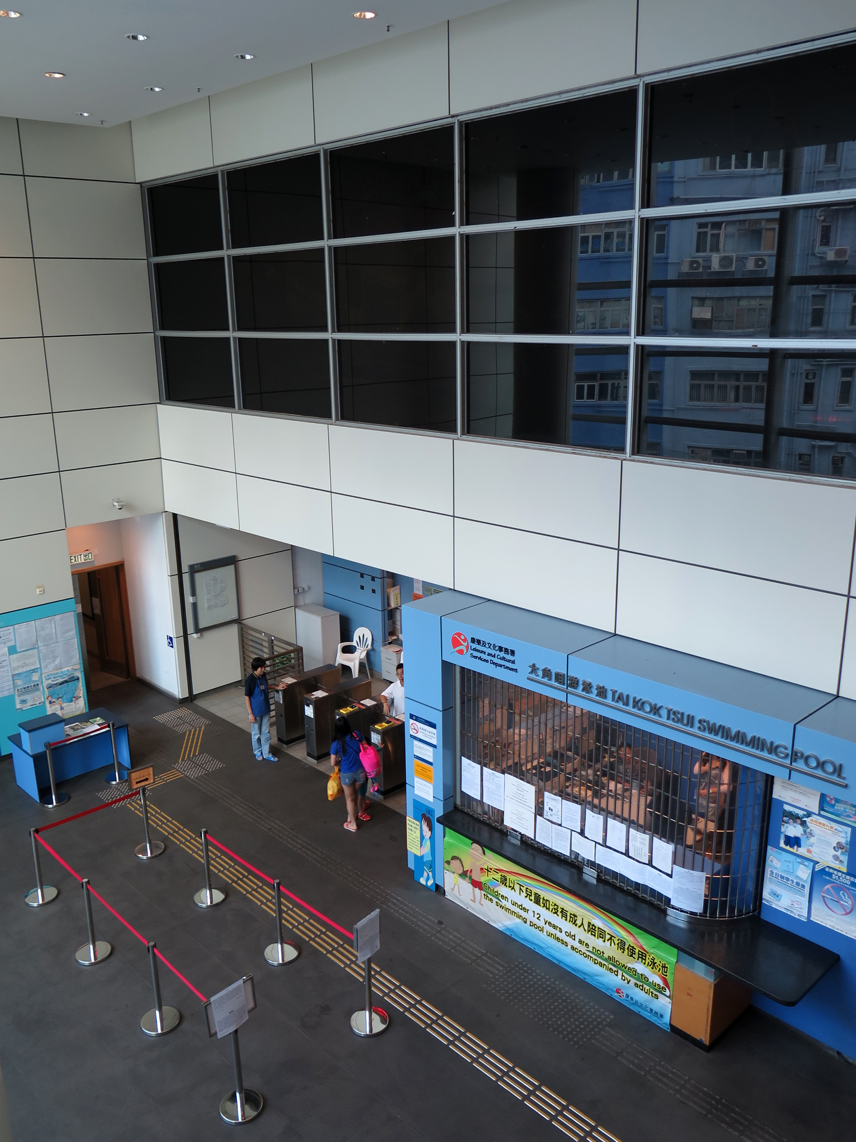 Tai Kok Tsui Municipal Services Building Level 4 Swimming Pool Entrance